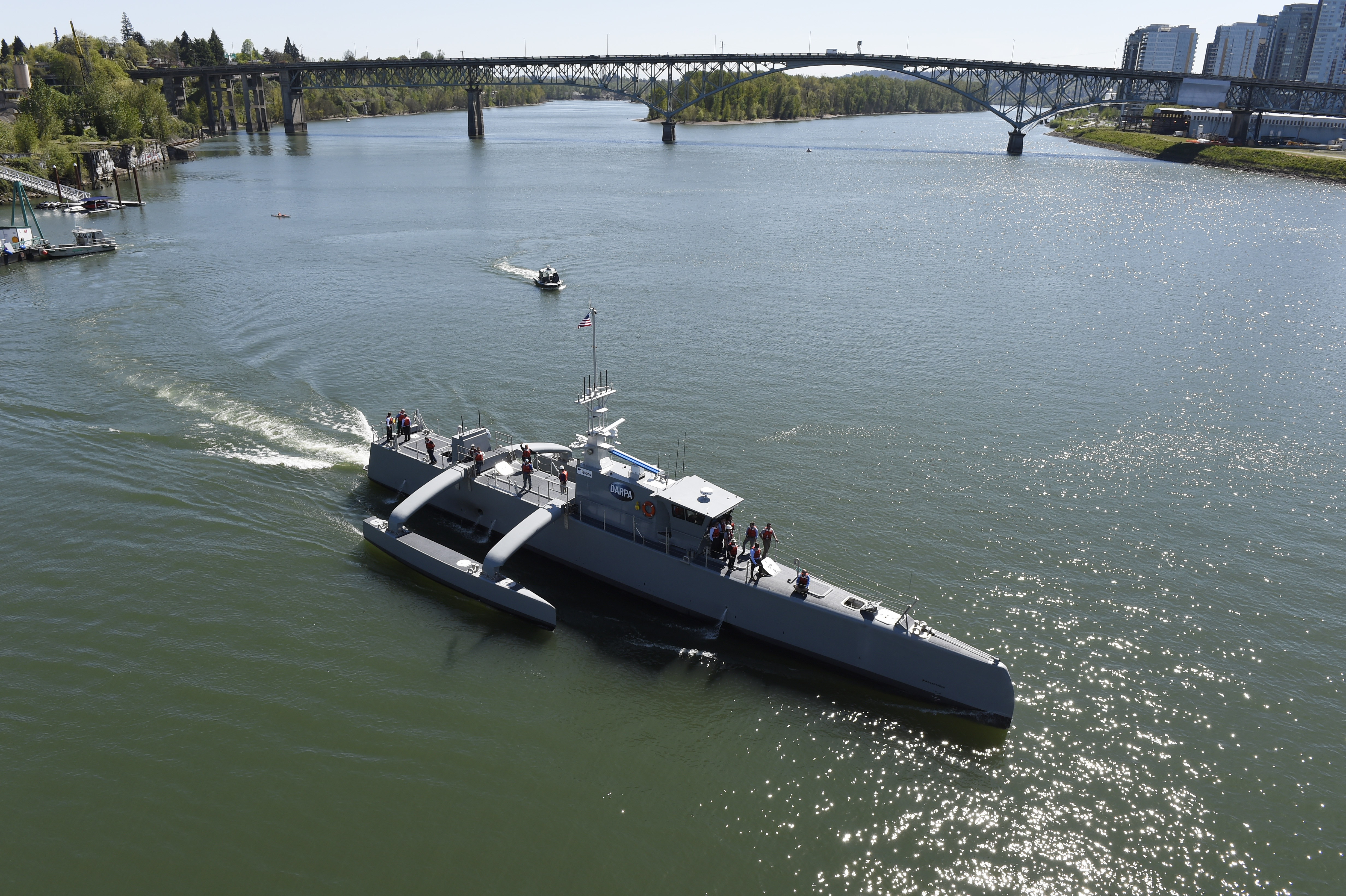 PORTLAND, Ore. (Apr. 7, 2016) Sea Hunter, an entirely new class of unmanned ocean-going vessel gets underway on the Willamette River following a christening ceremony in Portland, Ore. Part the of the Defense Advanced Research Projects Agency (DARPA)'s Anti-Submarine Warfare Continuous Trail Unmanned Vessel (ACTUV) program, in conjunction with the Office of Naval Research (ONR), is working to fully test the capabilities of the vessel and several innovative payloads, with the goal of transitioning the technology to Navy operational use once fully proven.